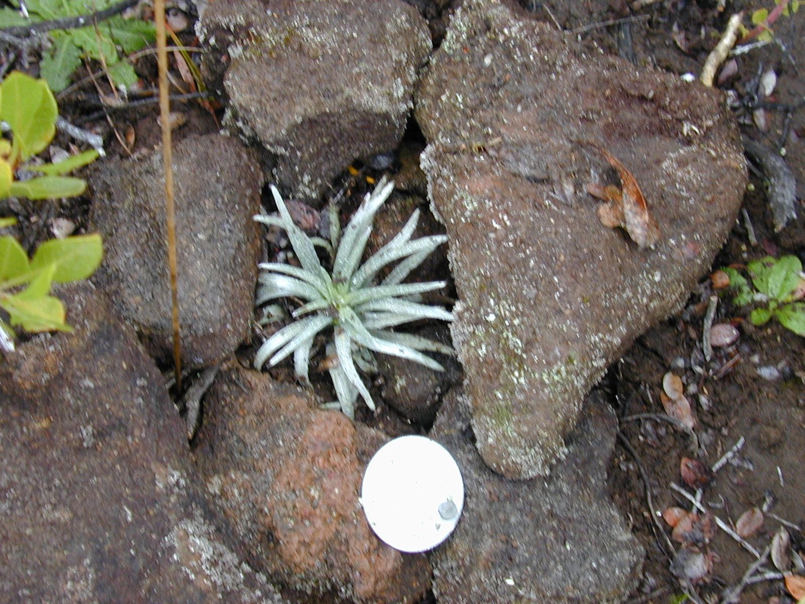 Argyroxiphium kauense (planted). Location: Hawaii, Mauna Loa Strip Rd silversword exclosure